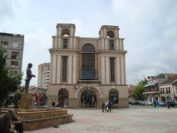 The building of the archives of Kumanovo, a department of the State Archive of the Republic of Macedonia. This media file is produced by Wikipedian in Residence in Category:Wikipedian in Residence at DARM in 2016.